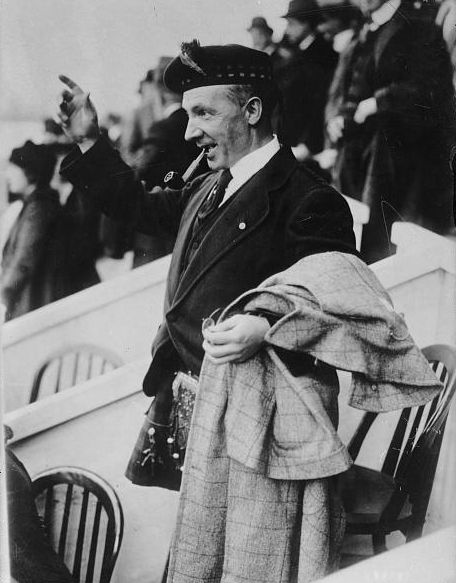 Harry Lauder (1870-1950), Scottish entertainer